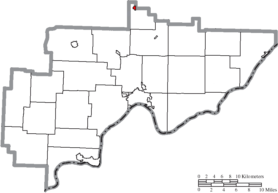 Map of the municipal and township boundaries of Washington County, Ohio, United States, as of the 2000 census, with the location of the village of Macksburg highlighted. Township borders are shown only in unincorporated areas in order to differentiate incorporated and unincorporated areas more clearly.